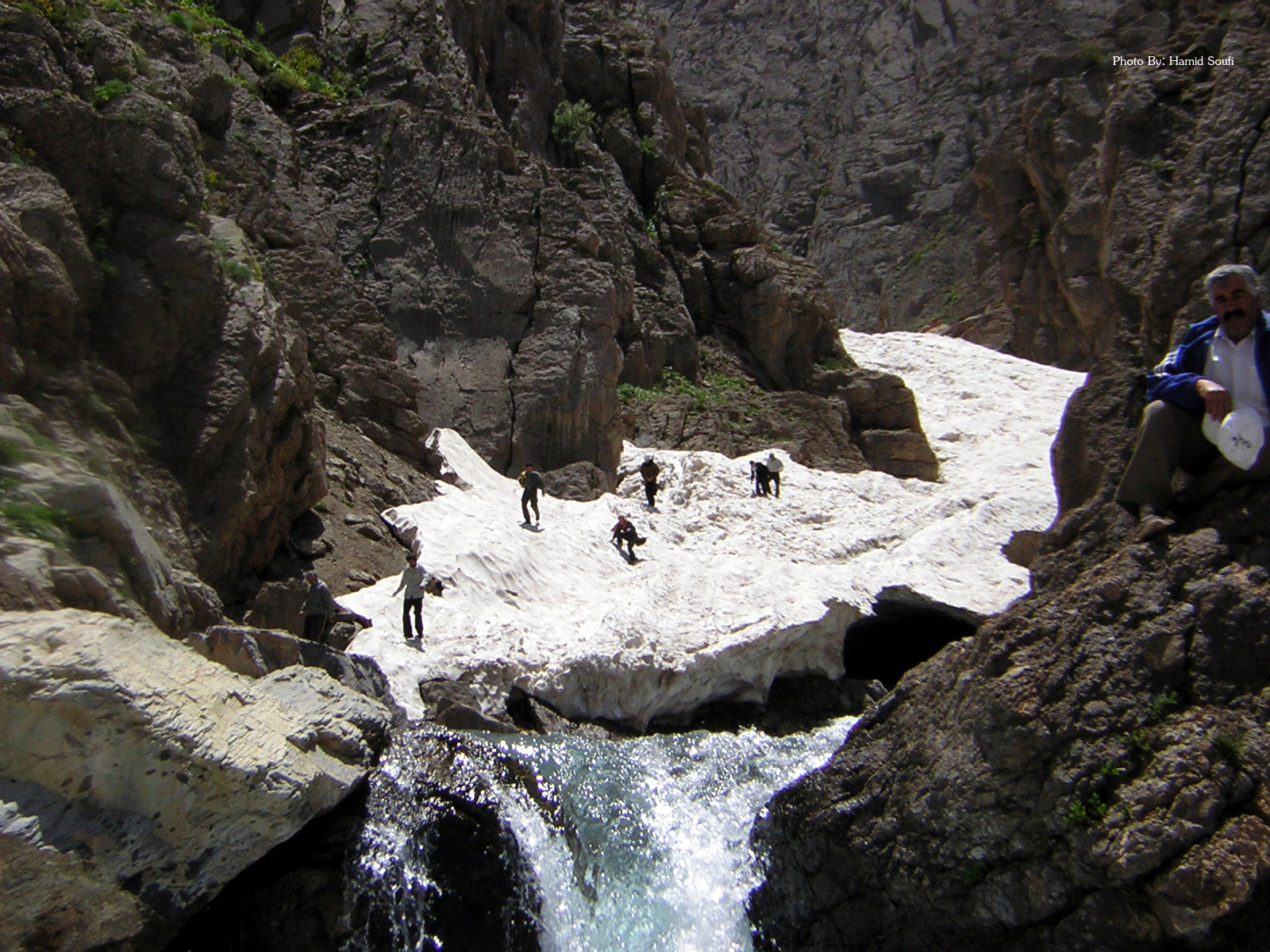 Azna - Oshtorankooh - Snowy Tunnel Of Kamandan ازنا - اشترانکوه - تونل برفی کمندان